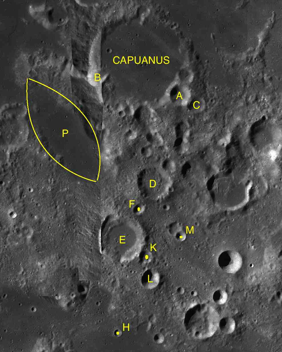 Part of the chart LAC-111 used for the presentation